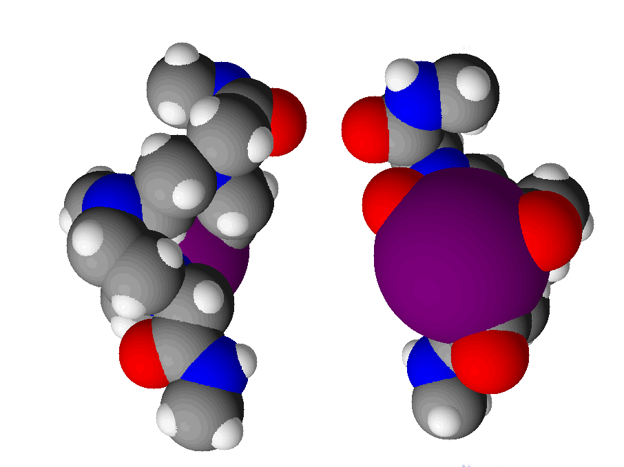 I created this using ACD/ChemSketch and GIMP